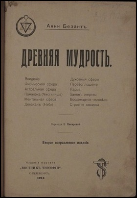 Annie Besant's Book The Ancient Wisdom. Title page of the Russian edition.